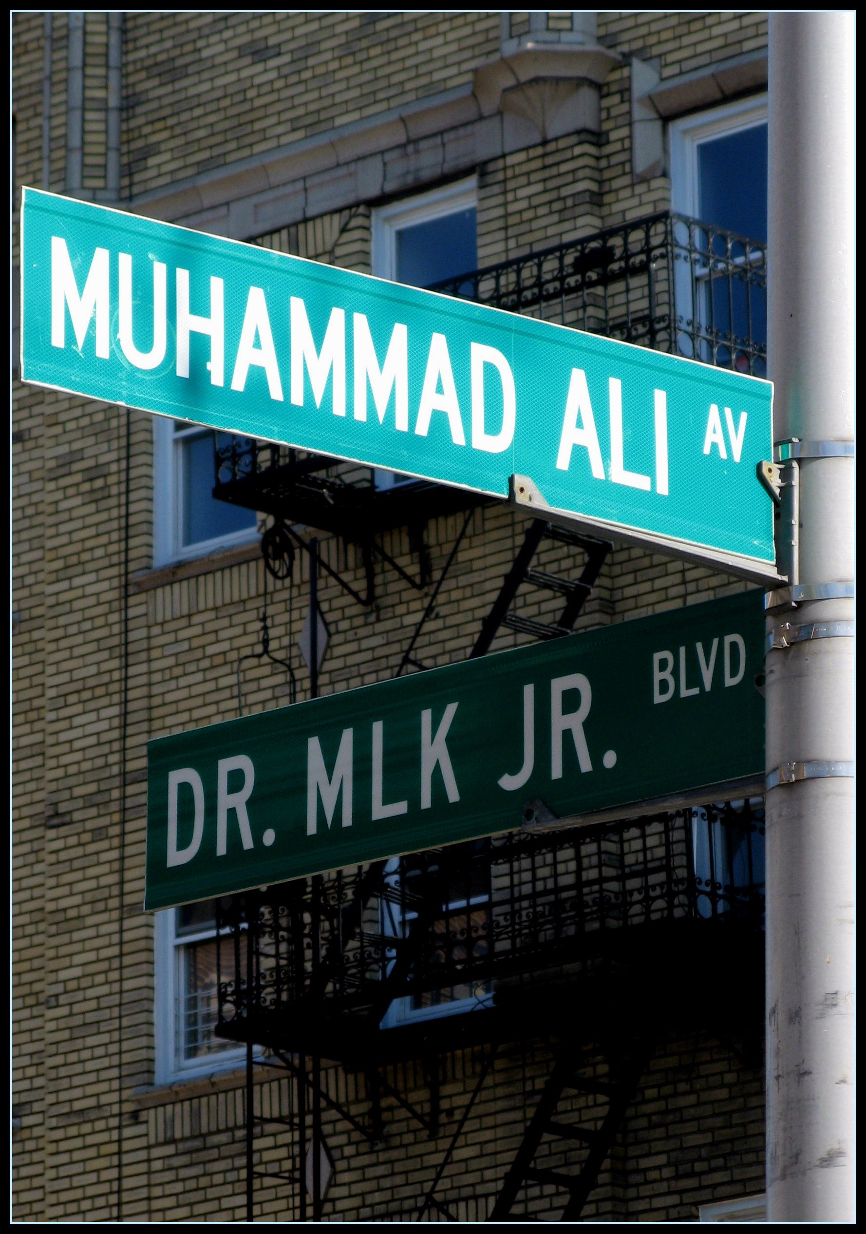 This Avenue is named after Muhammad Ali (born Cassius Marcellus Clay Jr., January 17, 1942 in Louisville, Kentucky, U.S.) is a retired American boxer and former three-time World Heavyweight Champion. As an amateur, Ali won a gold medal at the Olympic in the light heavyweight division gold medal. As a professional, he became the only man to have won the linear heavyweight championship three times. In 1999, Ali was crowned "Sportsman of the Century" by Sports Illustrated and the BBC. Cassius Marcellus Clay, Jr., was born in Louisville, Kentucky. He was named after his father, Cassius Marcellus Clay Sr., who was named for the 19th century abolitionist and politician Cassius Clay. Ali changed his name after joining the Nation of Islam in 1964, subsequently converting to Sunni Islam in 1975 and then Sufism. Ali was known for his fighting style, which he described as "Float like a butterfly, sting like a bee". Throughout his career Ali made a name for himself with great handspeed, as well as swift feet and taunting tactics. While Ali was renowned for his fast, sharp out-fighting style, he also had a great chin, and displayed great courage and an ability to take a punch throughout his career.